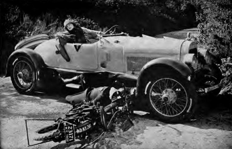 Still from the American drama film Manslaughter (1922) with Leatrice Joy, facing page 122 of the novel. Caption: It was a terrifying moment for Lydia.